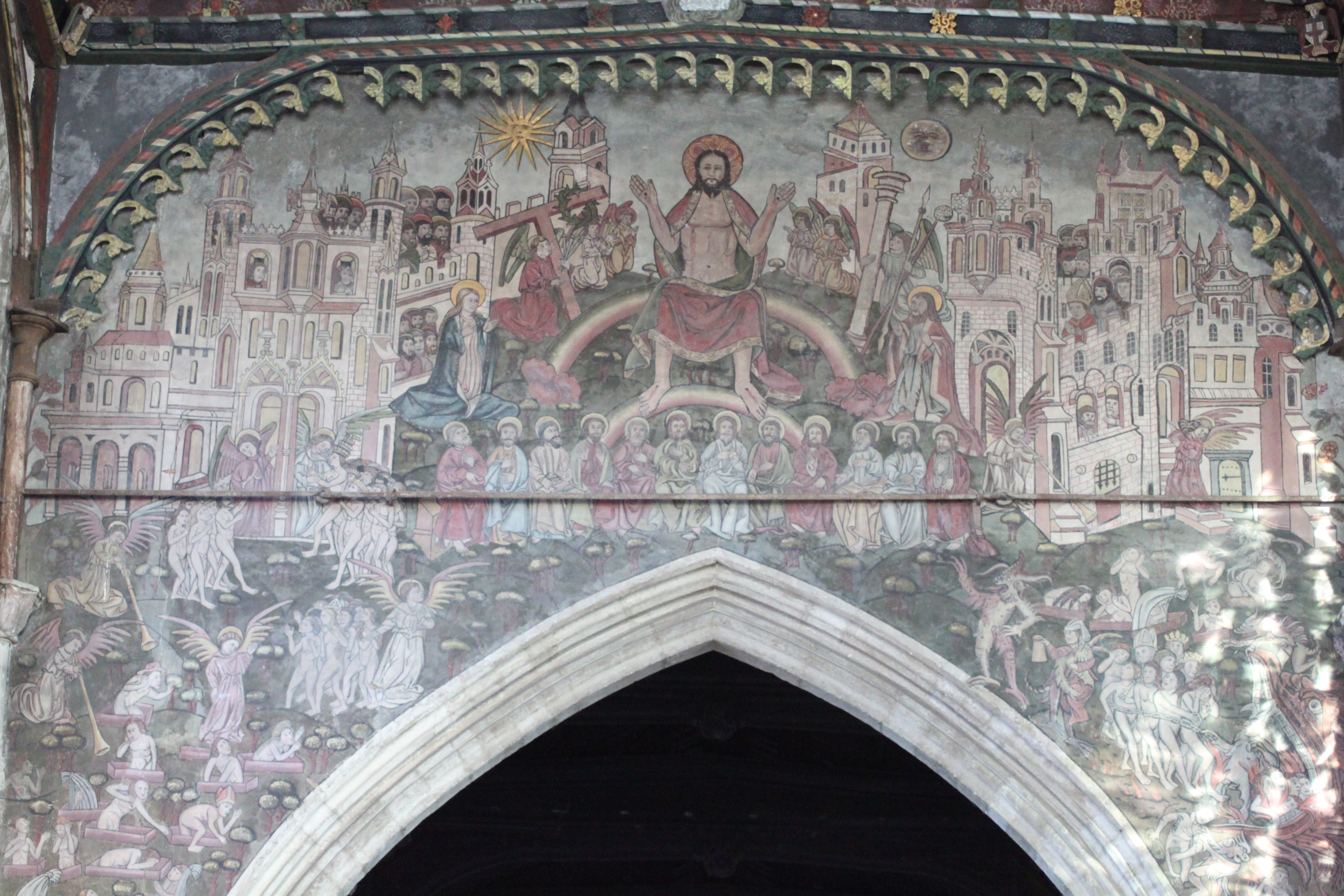 Medieval doom painting of the Last Judgement, St Thomas Salisbury